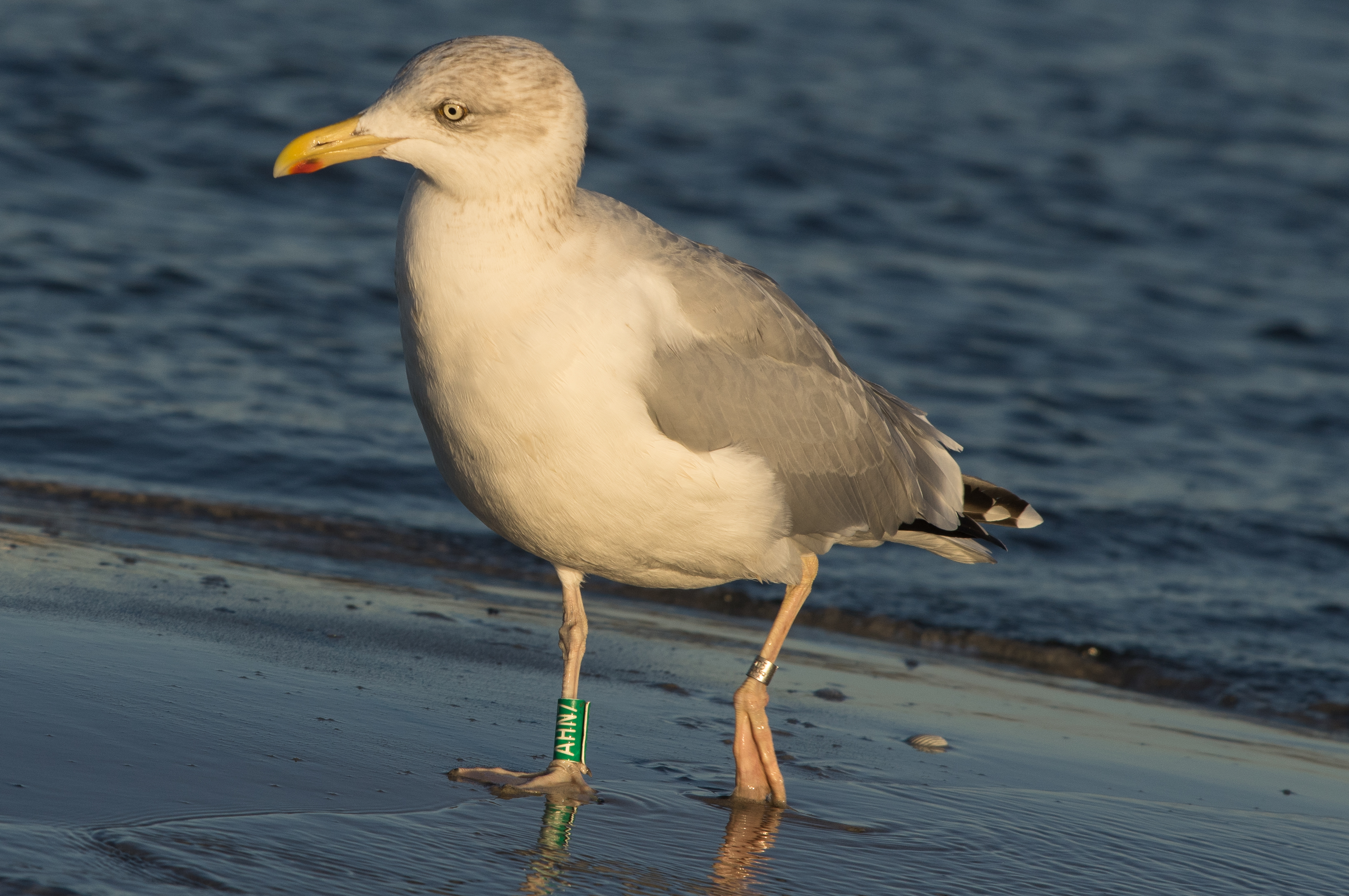 European Herring Gull (Larus agrgentatus)(ringed), Travemünde, Germany